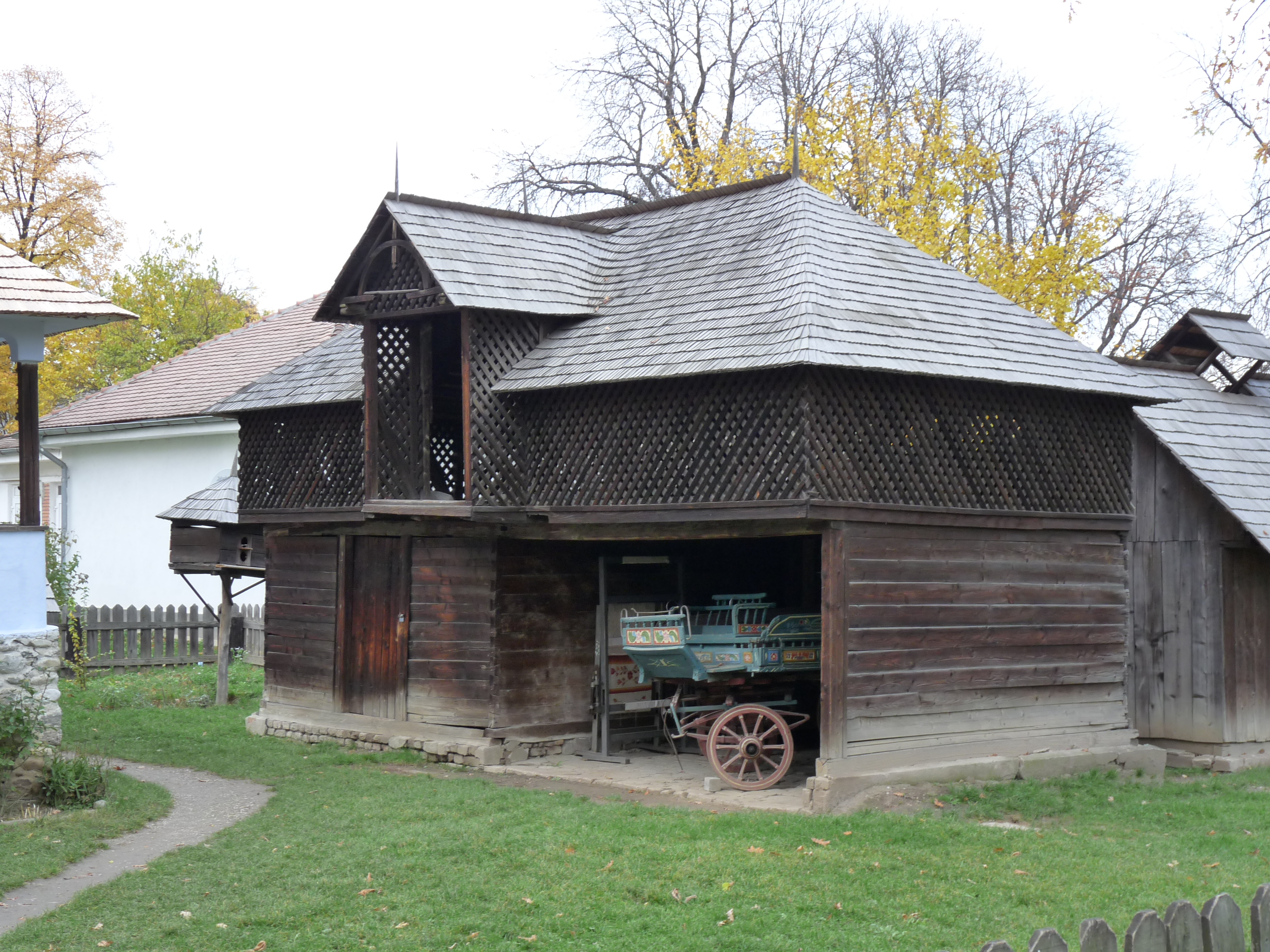 19th century household from Stăneşti, Argeş County, Romania, exhibited in the Village Museum in Bucharest. Shed with stable and hayloft.